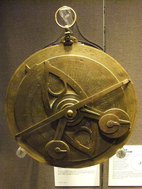 Equatorium, World Museum Liverpool, England. Made around 1600, possibly in France.